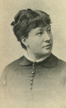 Portrait of the Italian actress Virginia Marini. In "Illustri italiani contemporanei" by Onorato Roux (Firenze, 1908)